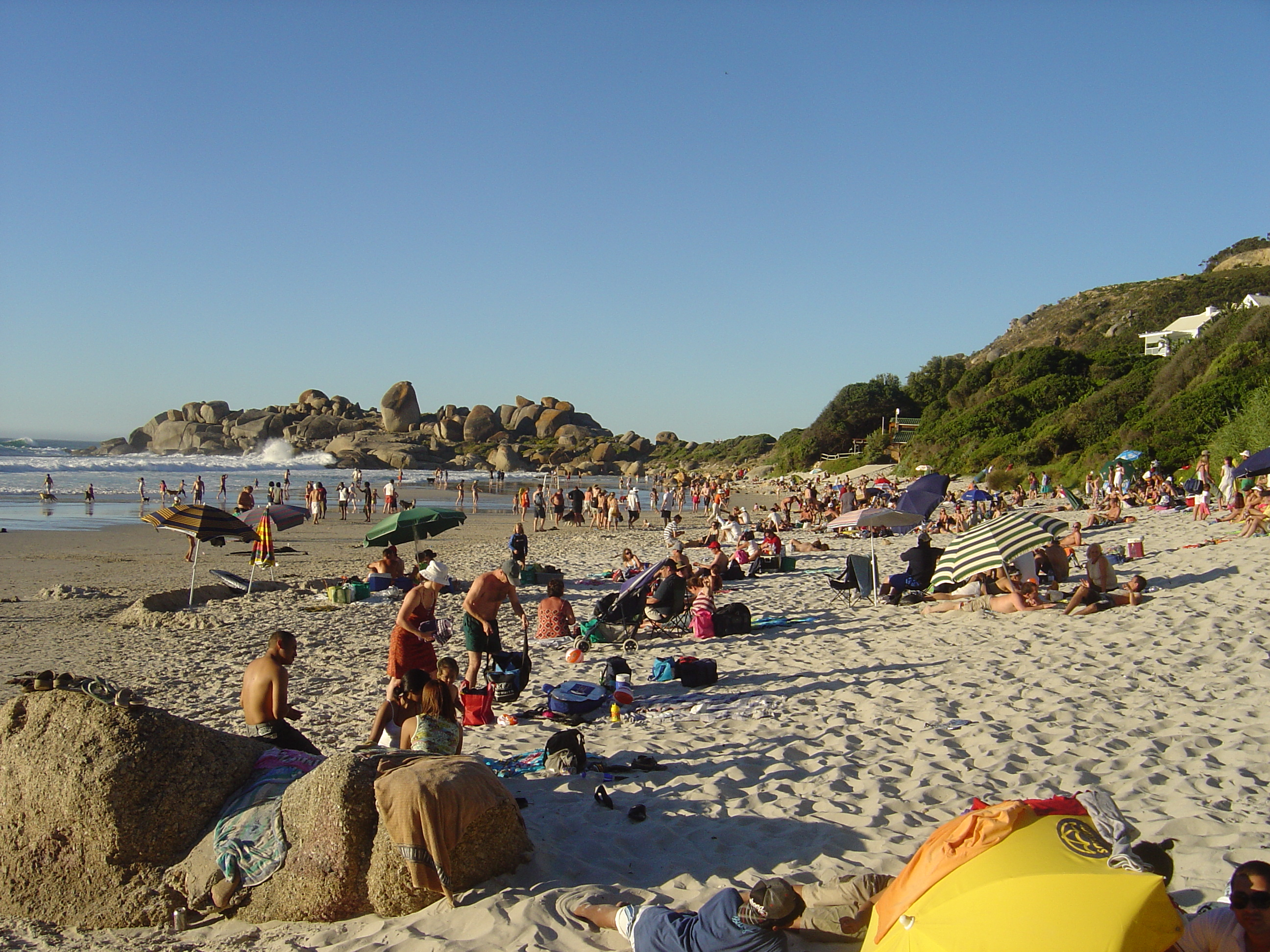 Llandudno beach in Cape Town, South Africa